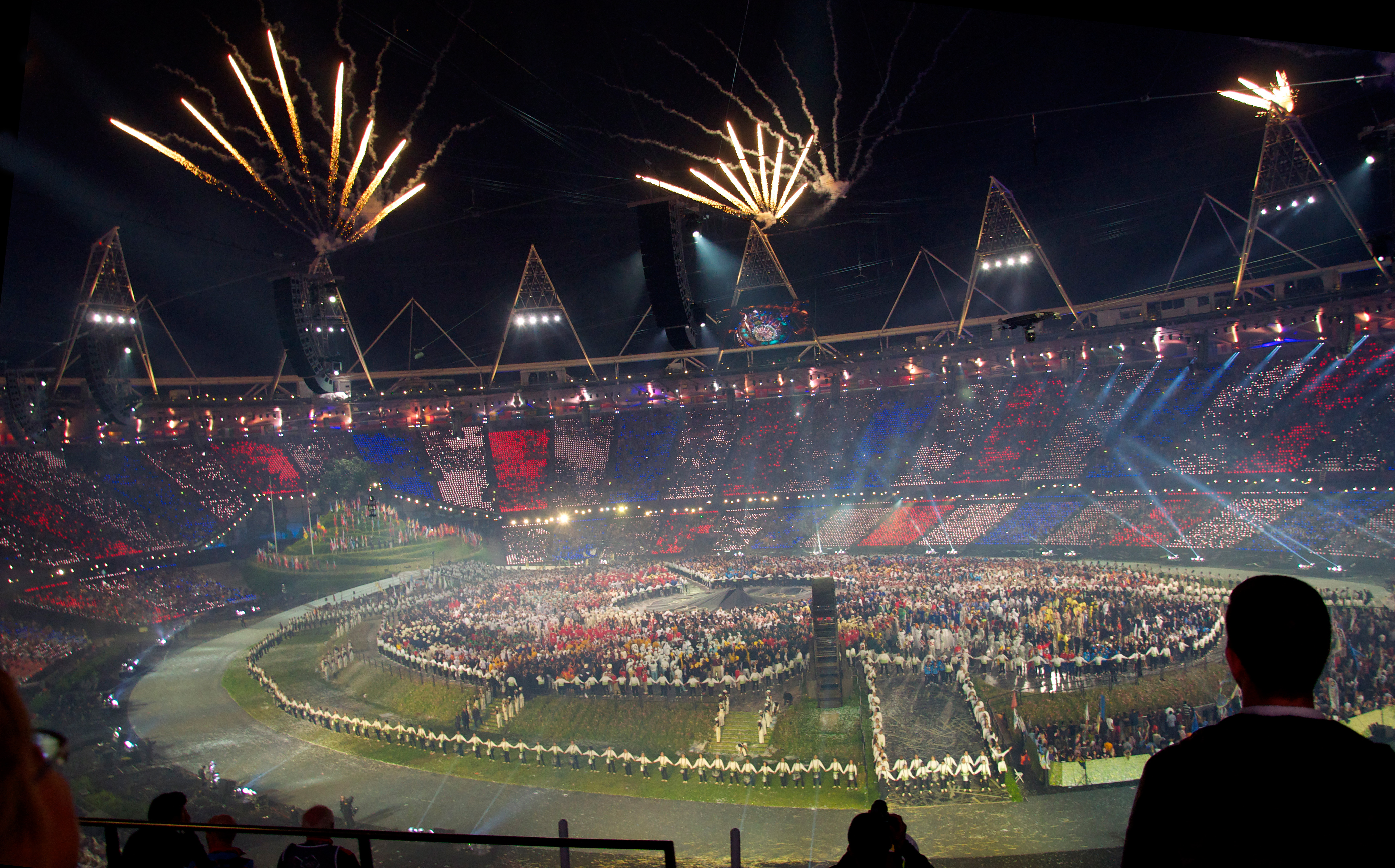 Fireworks at the opening ceremony of the 2012 Summer Olympics